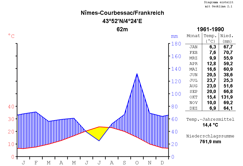 climate chart of Nîmes-Courbessac, France, for the period of time from 1961 to 1990, in the format by Walter and Lieth, metric, °Celsius and millimeters, chart made with Geoklima 2.1, label in German